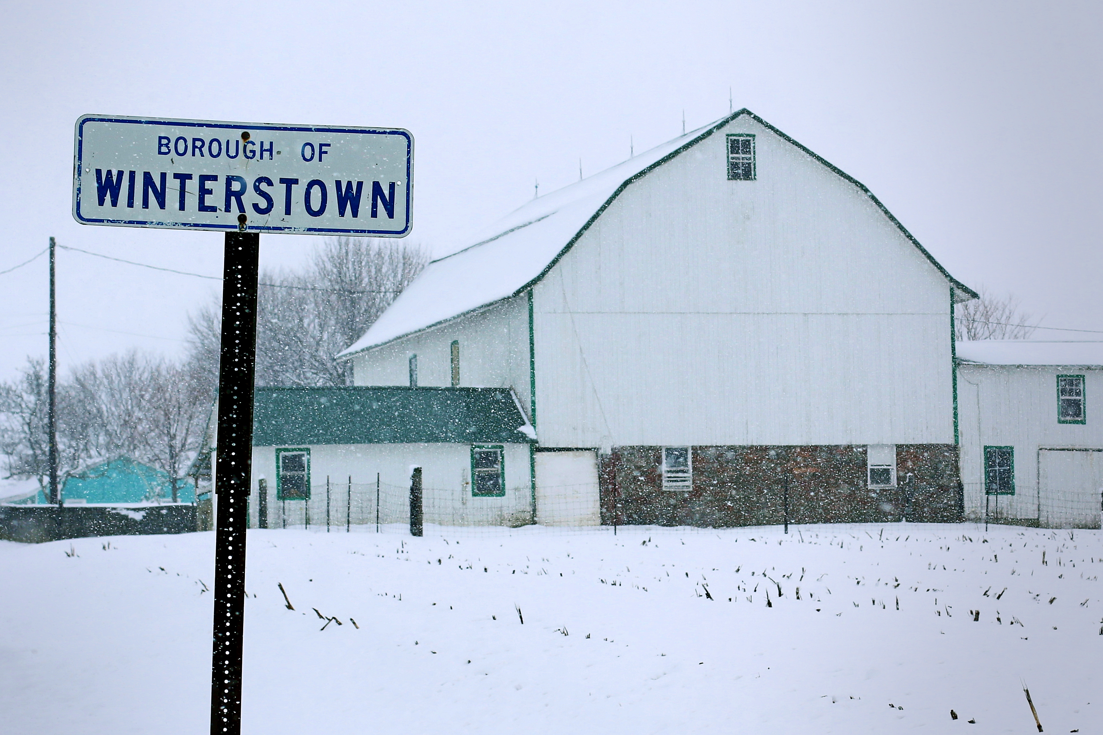 A barn on the western side of Pennsylvania Route 24/Main Street on the northern edge of Winterstown, Pennsylvania, United States.